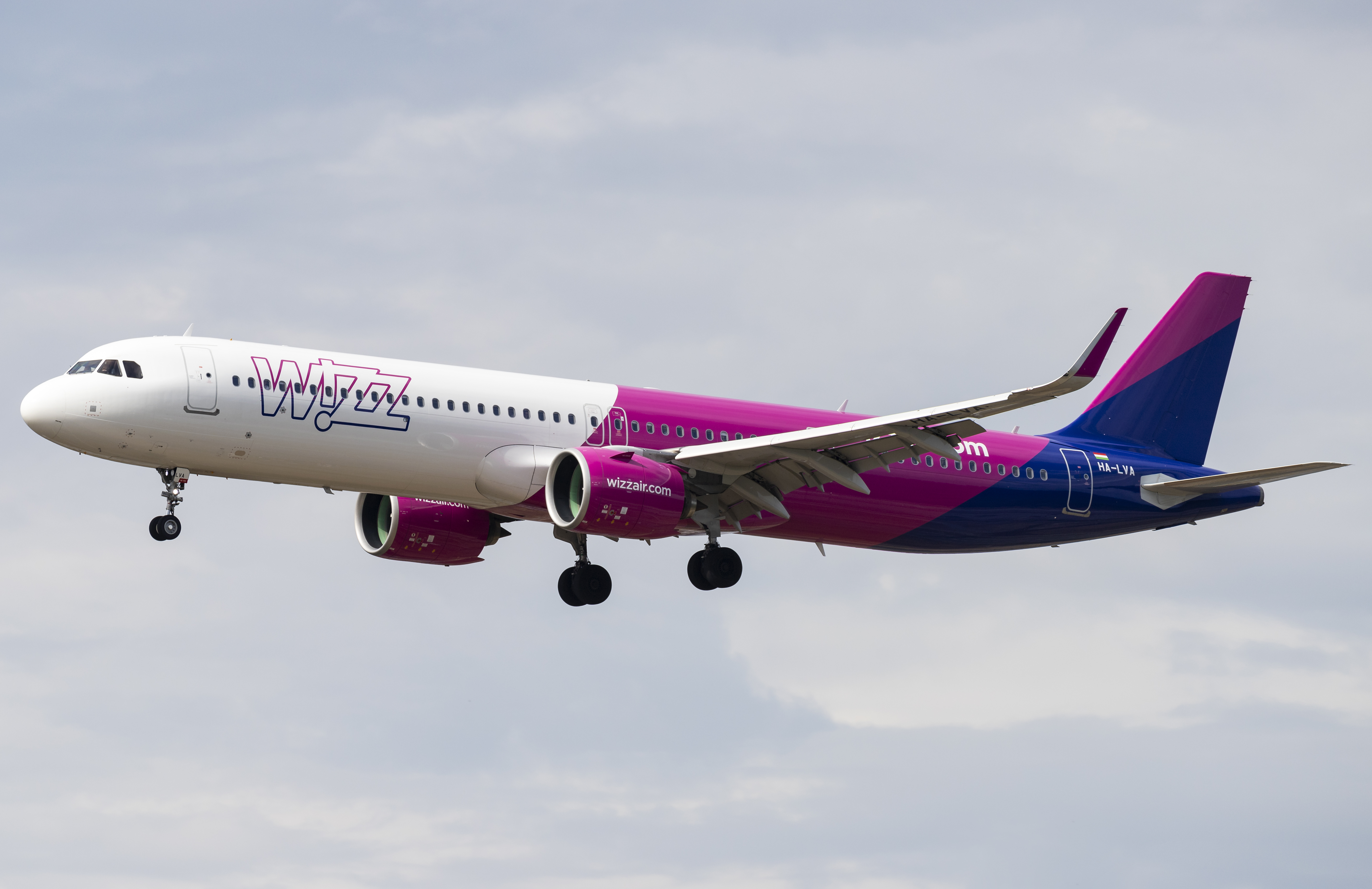 Frankfurt am Main Airport, Airbus A321-200neo (HA-LVA) of Wizz Air approaching runway 25L.